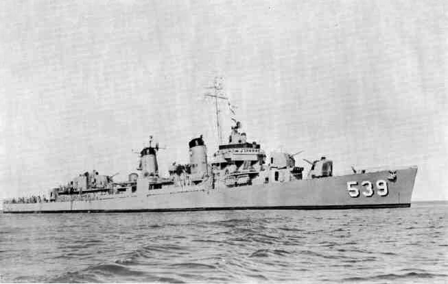 The U.S. Navy Fletcher-class destroyer USS Tingey (DD-539), in the 1950s.